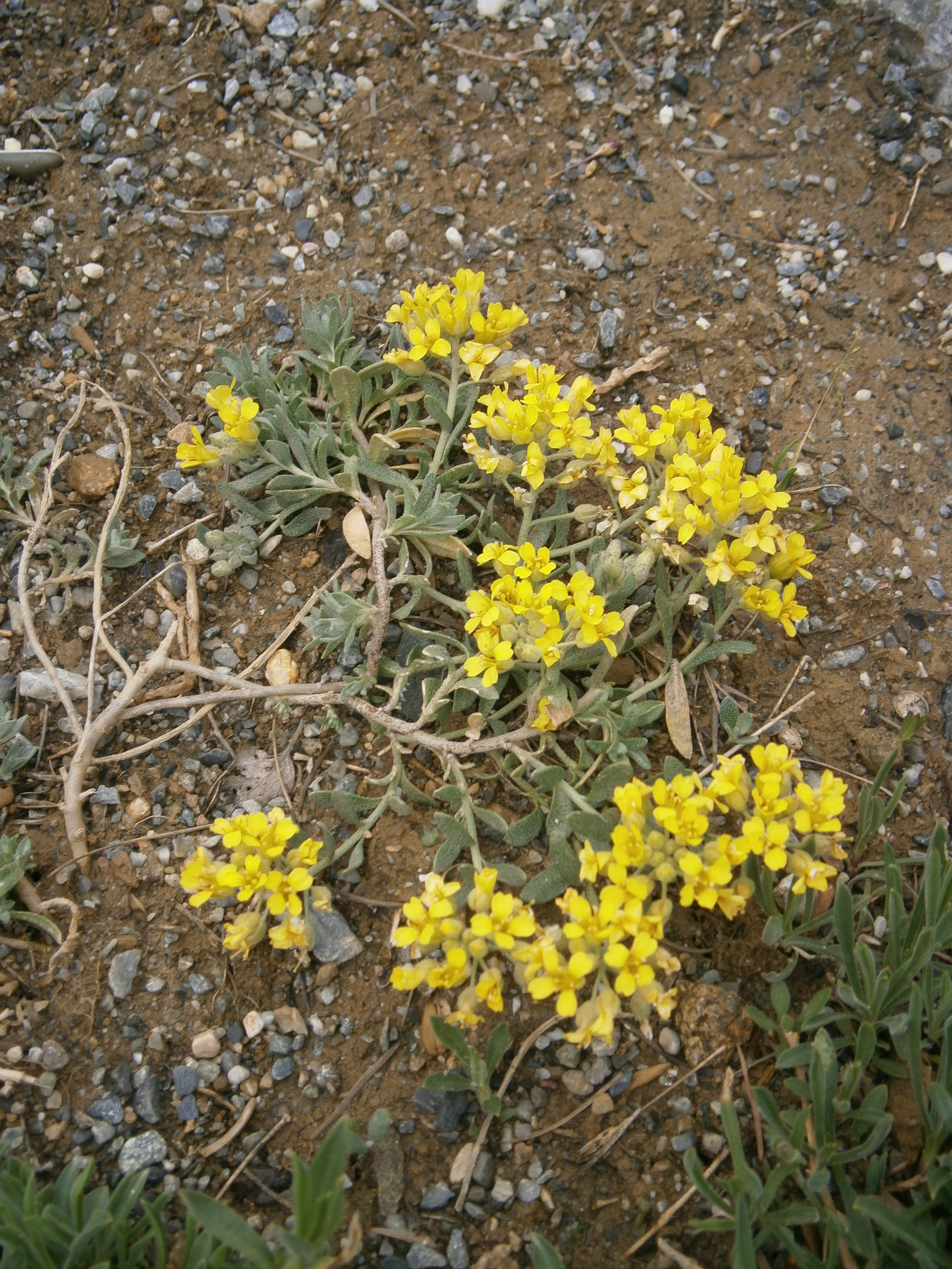 Alyssum cuneifolium in the Jardin Botanique Alpin du Lautaret